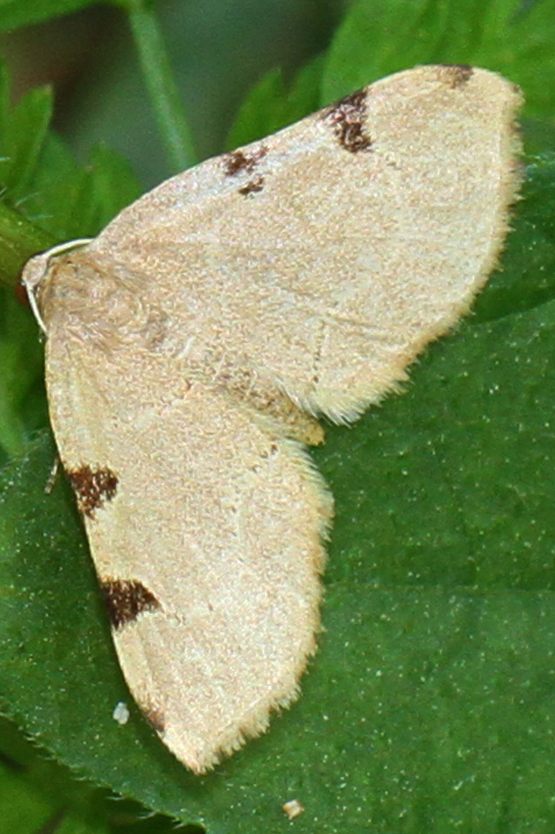 Three-spotted Fillip - Heterophleps triguttaria, Merrimac Farm Wildlife Management Area, Nokesville, Virginia